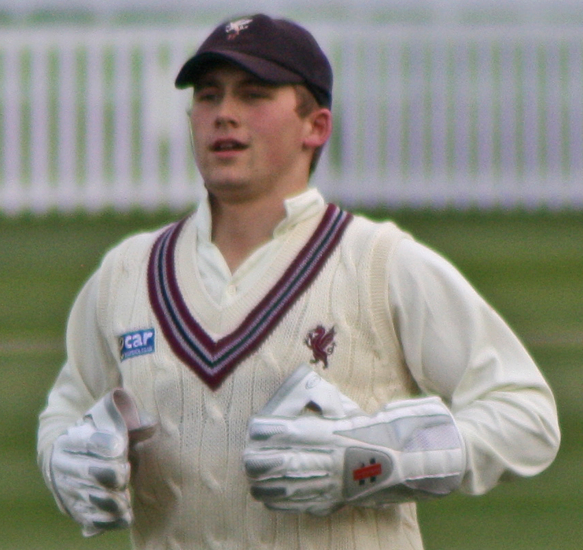 James Regan keeping wicket for Somerset during a pre-season match against Worcestershire in 2012.